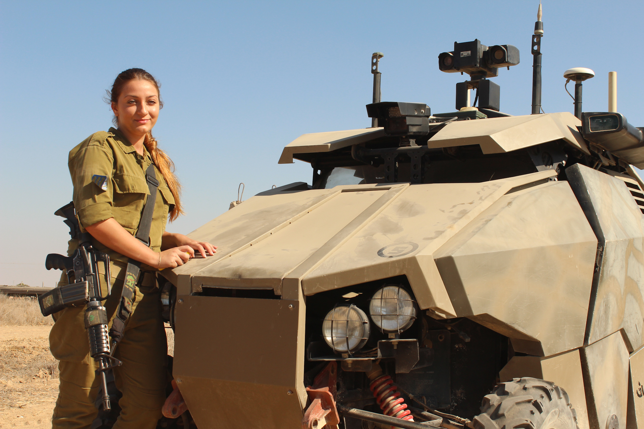 This Israeli made unmanned ground vehicle is one of Israel's most important weapons on its border with Gaza. Equipped with 360 degree cameras, the Guardium is conserving IDF soldier's lives. Photo: Cpl. Zev Marmorstein, IDF Spokesperson's Unit. For more from the IDF